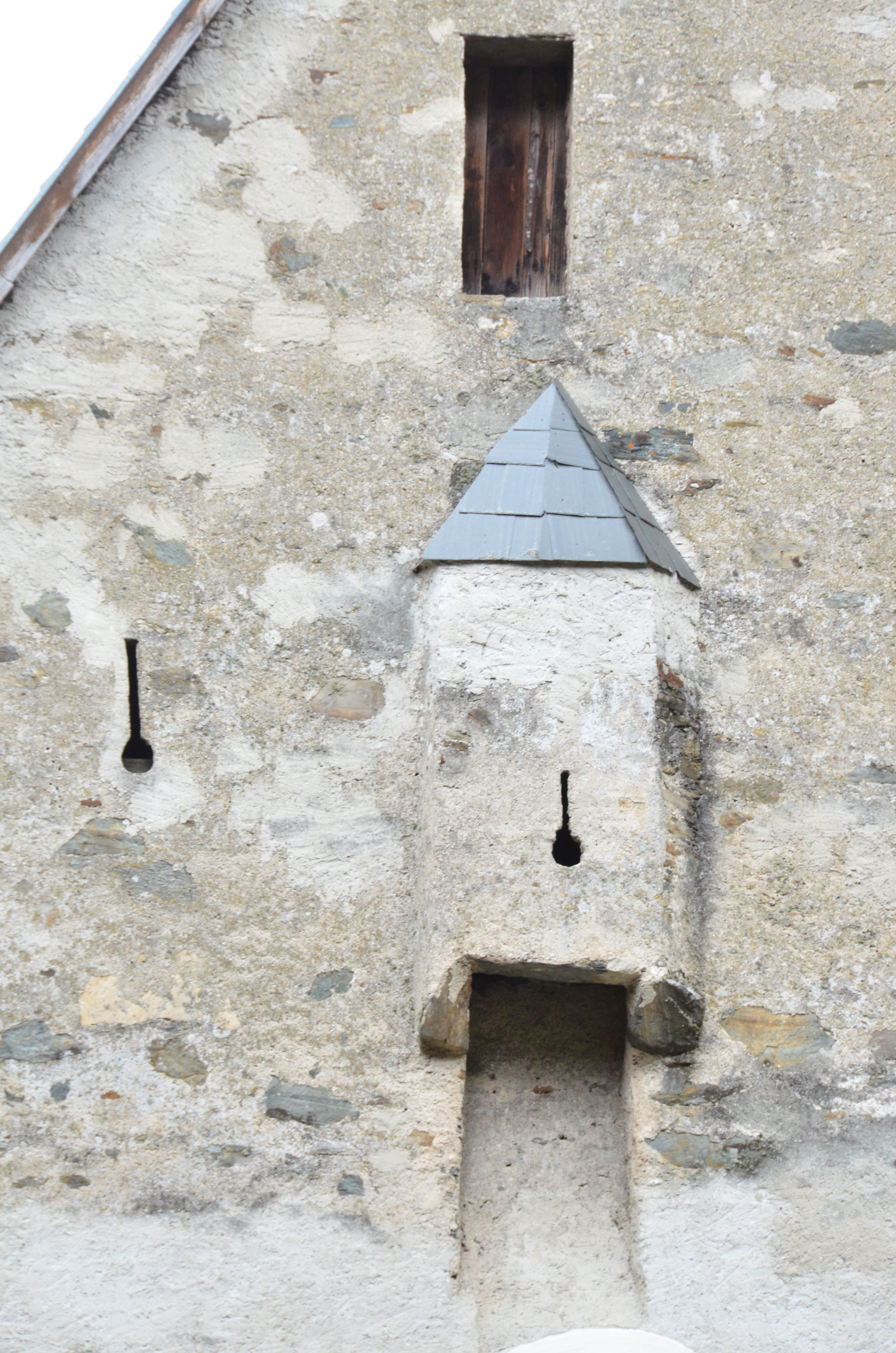 Machicolation and keyhole embrasures on the west facade at the subsidiary church Saints Wolfgang and Magdalena at Rottendorf, municipality Feldkirchen in Kärnten, district Feldkirchen, Carinthia, Austria, EU